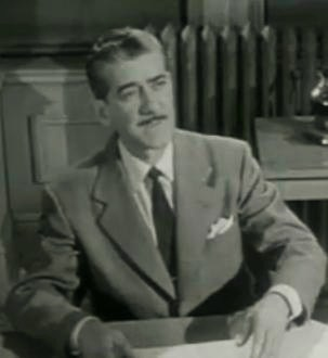 Philip Bourneuf in Beyond a Reasonable Doubt - trailer (cropped screenshot)